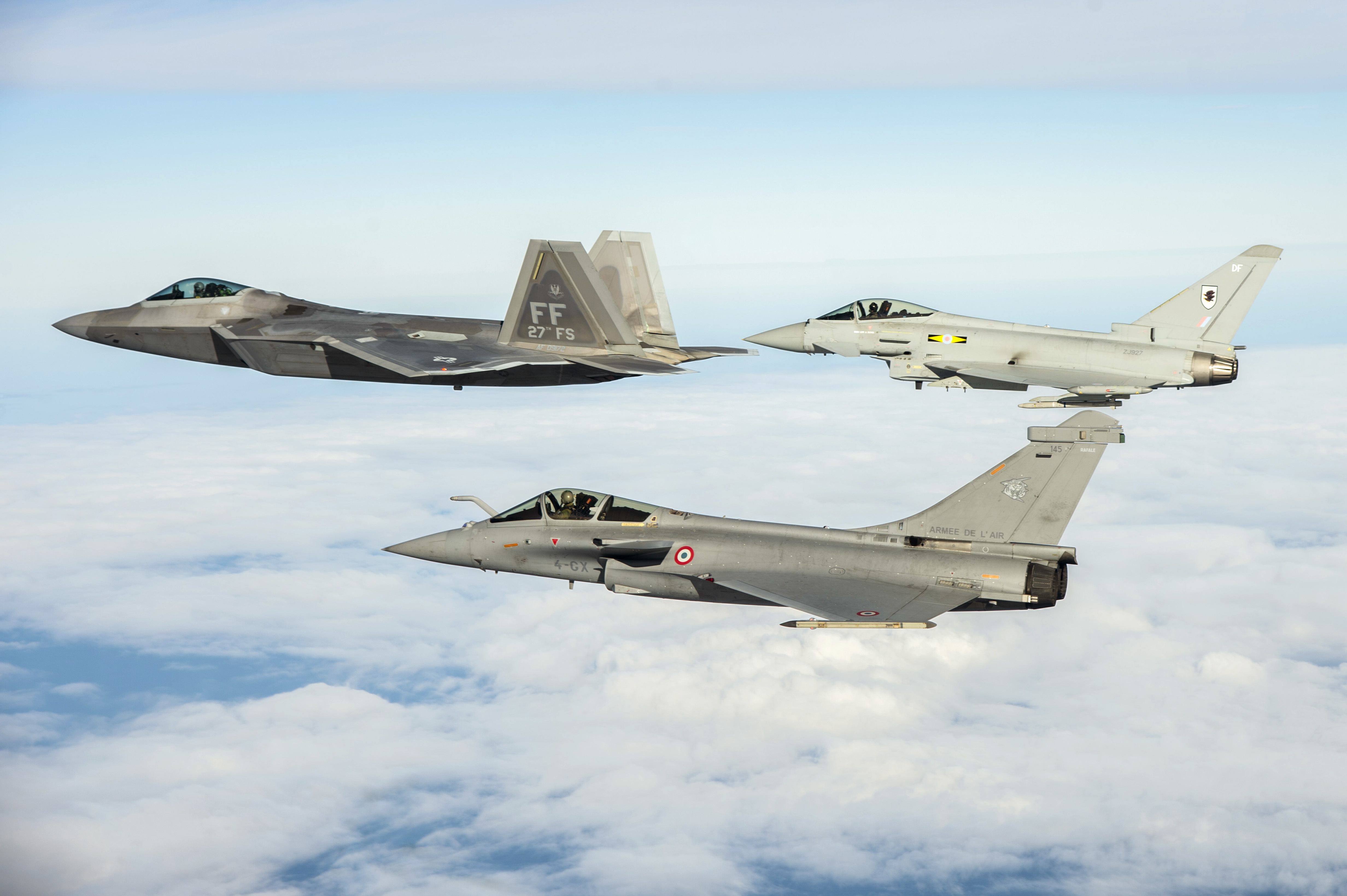 A U.S. Air Force F-22 Raptor, British Royal Air Force Typhoon, and French air force Rafale fly in formation as part of a Trilateral Exercise held at Langley Air Force Base, Va., Dec. 7, 2015. The exercise simulates a highly-contested, degraded and operationally-limited environment where U.S. and partner pilots and ground crews can test their readiness. (U.S. Air Force photo by Senior Airman Kayla Newman)